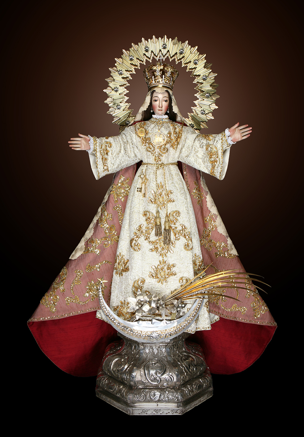 Imagen de la Virgen de la Asunción, escultura en pasta de maíz del siglo XVIII